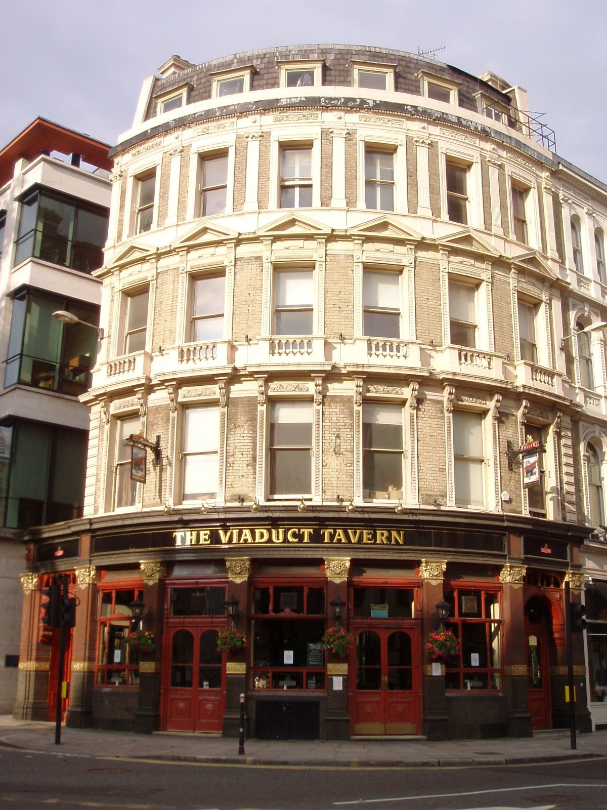 A fine, long-standing pub just near Holborn Viaduct. Address: 126 Newgate Street. Owner: Fuller Smith Turner (website); Nicholson's (former); Taylor Walker (former). Links: London Pubology